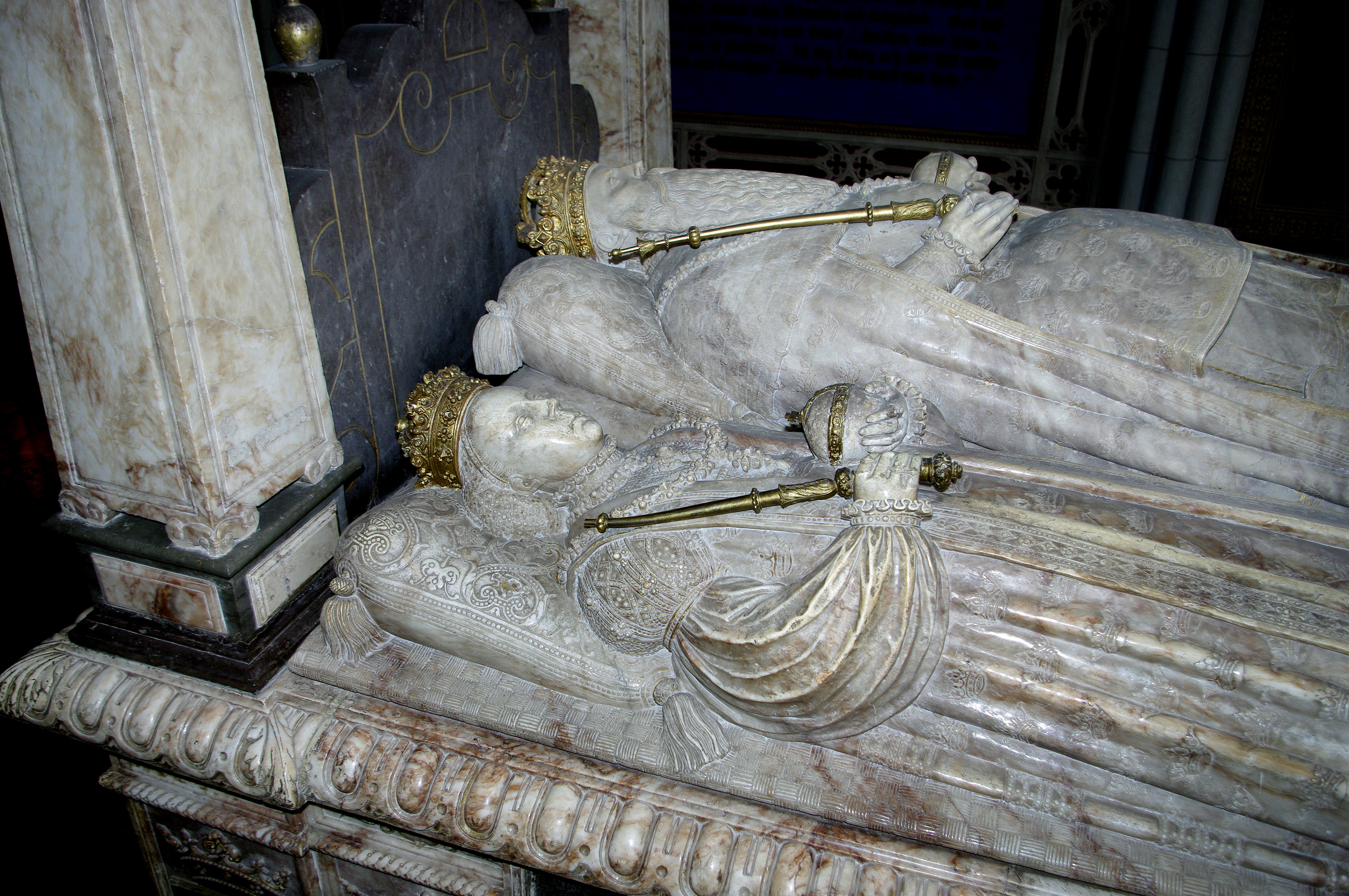 The grave tomb of king Gustav Vasa, dead 1560.